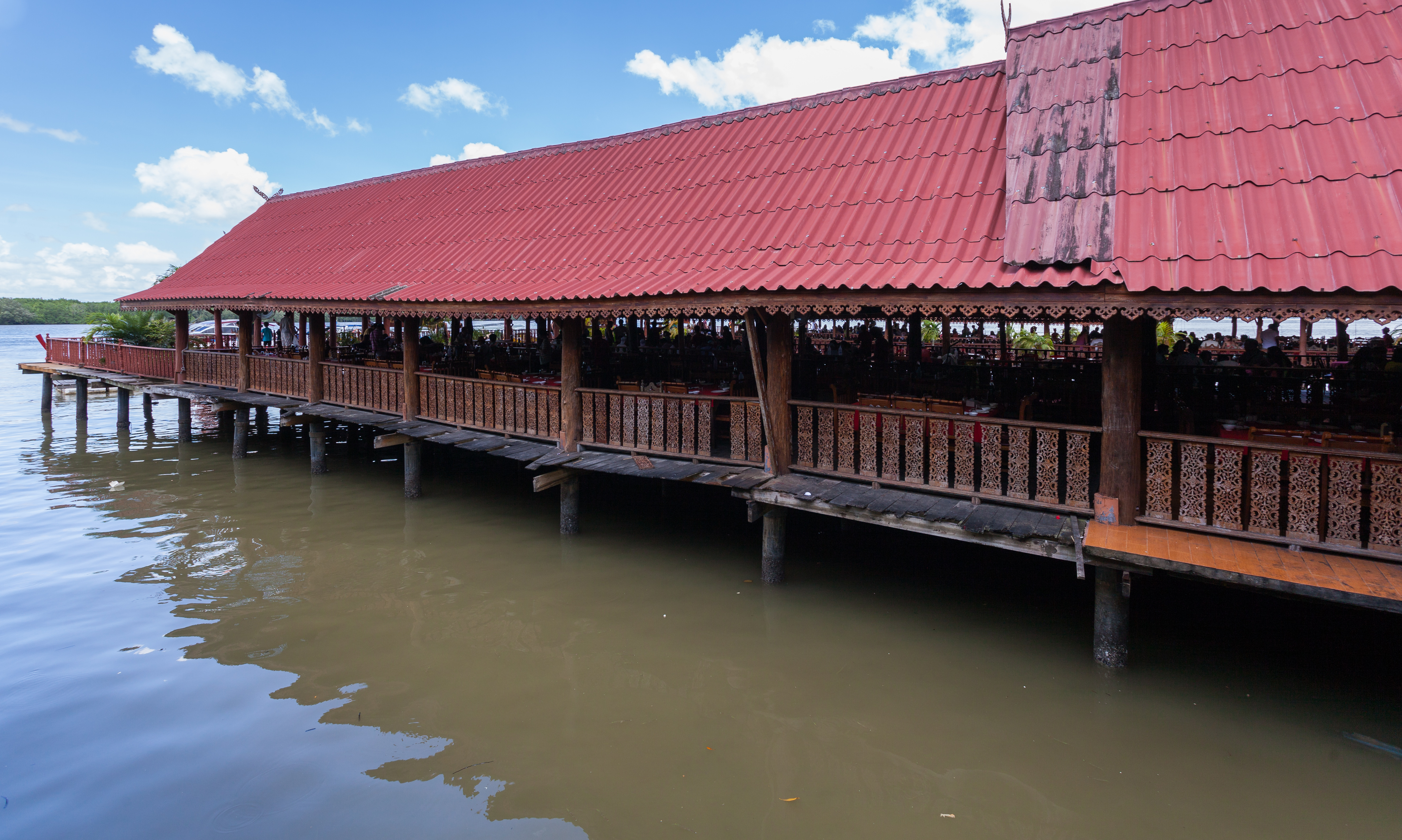 Panyee Island, Phuket, Thailand